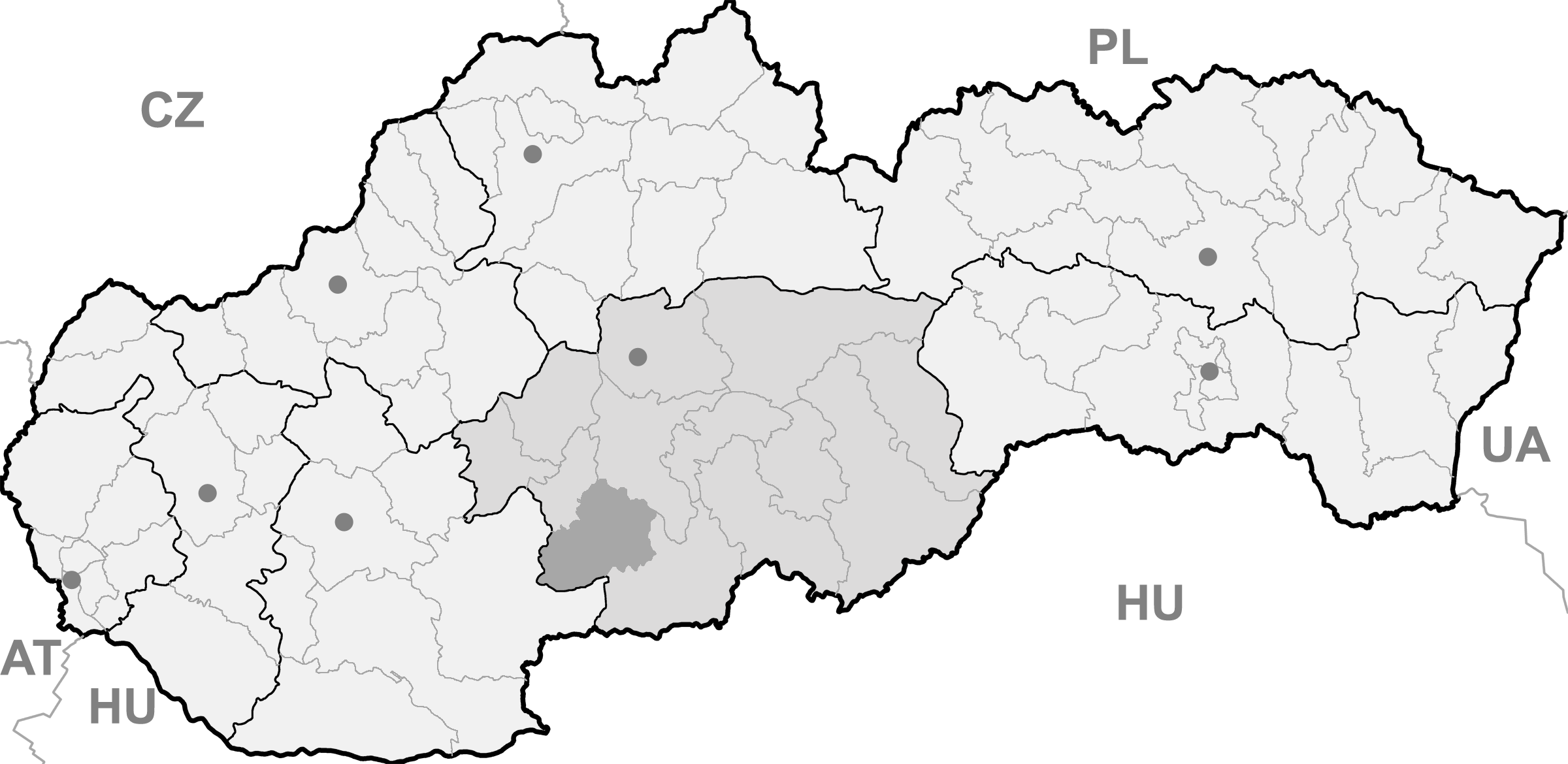 Map of Slovakia, Krupina district and Banská Bystrica region highlighted